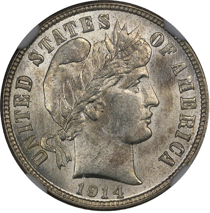 The obverse of the Barber dime, this example minted in 1914. This particular coin is graded MS64+ by the Numismatic Guaranty Corporation (NGC) and is housed in an EdgeView holder (one can see the minimally viewable white prongs holding the edge of the coin).